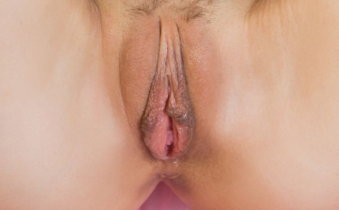 vulvvajjj